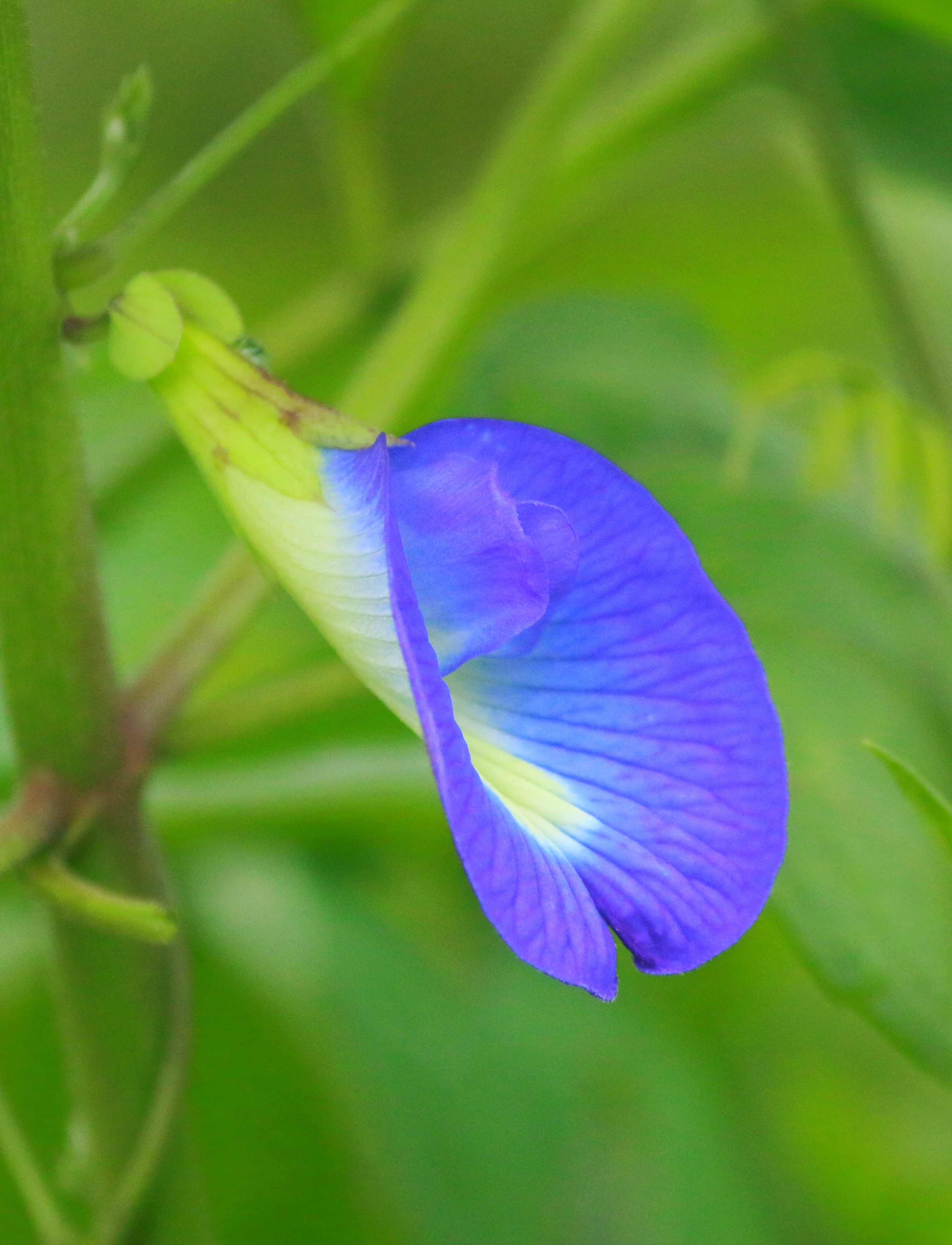 Flower of Clitoria ternatea